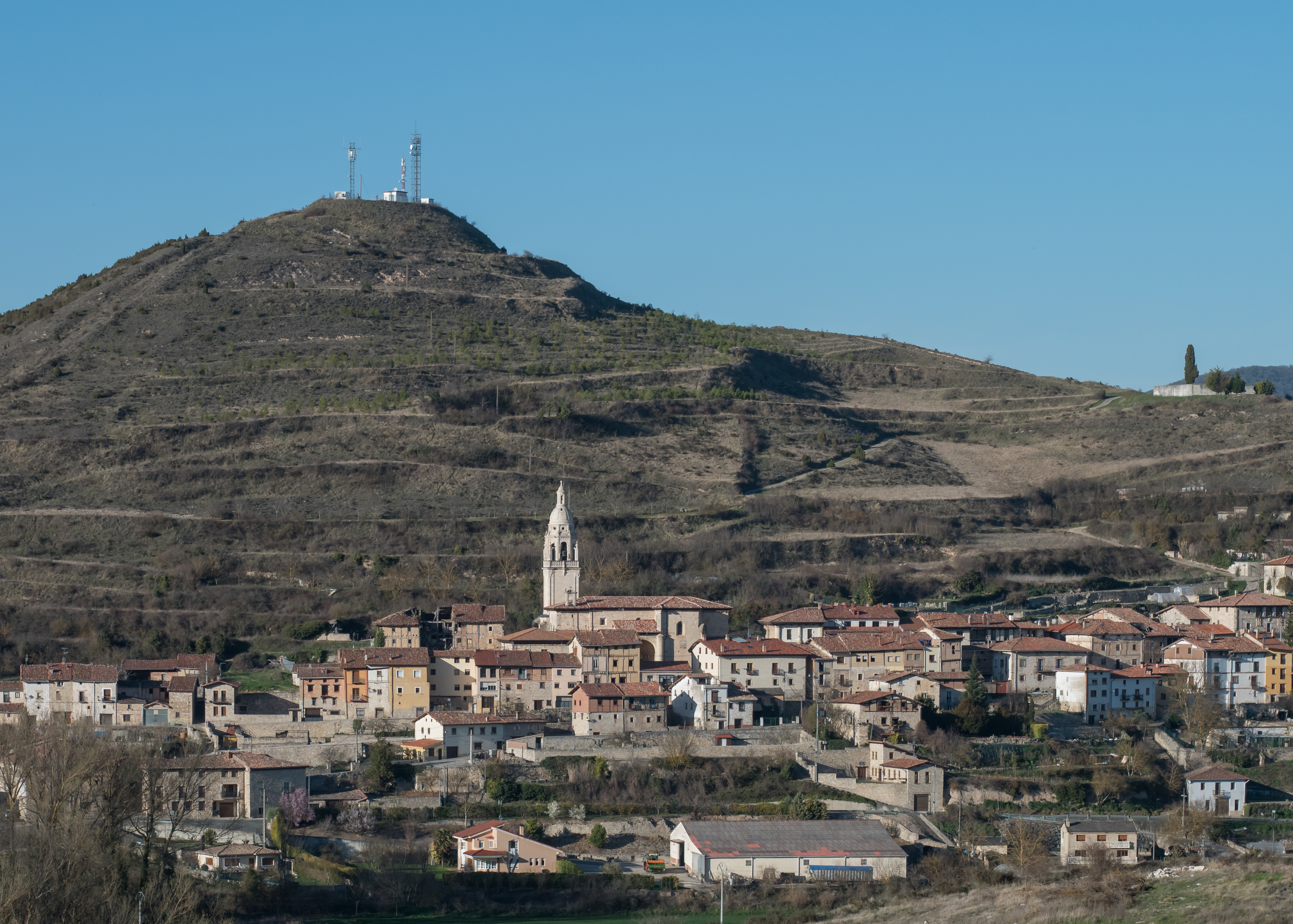 Treviño in Treviño County, Spain